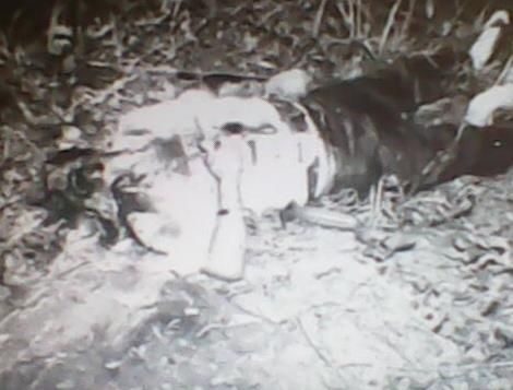 The Medellin Cartel leader Gonzalo Rodriguez Gacha, died in the La Lucha located between Tolu and Coveñas (Sucre) on the afternoon of December 15, 1989.